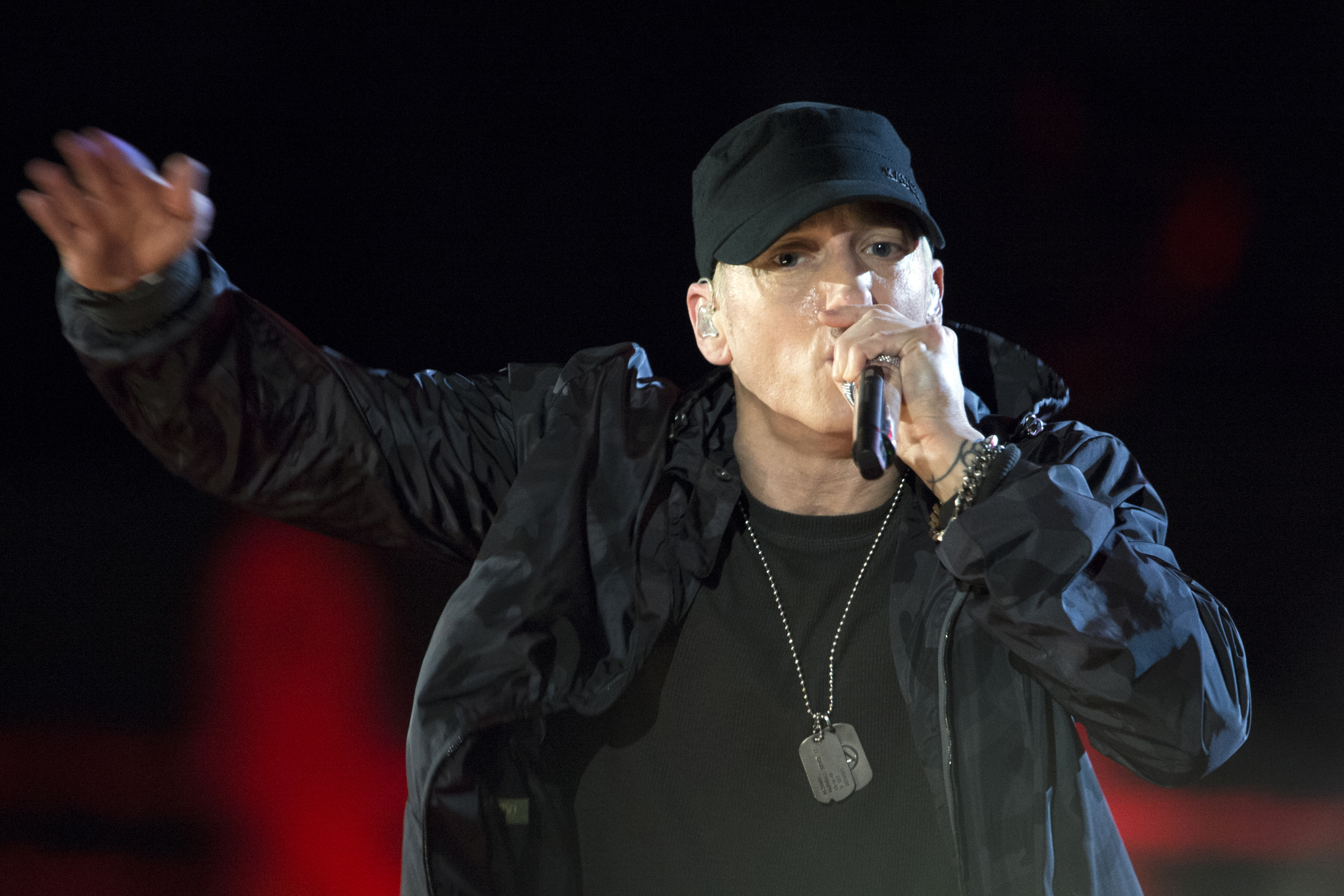 Eminem performs during The Concert for Valor in Washington, D.C. Nov. 11, 2014. DoD News photo by EJ Hersom